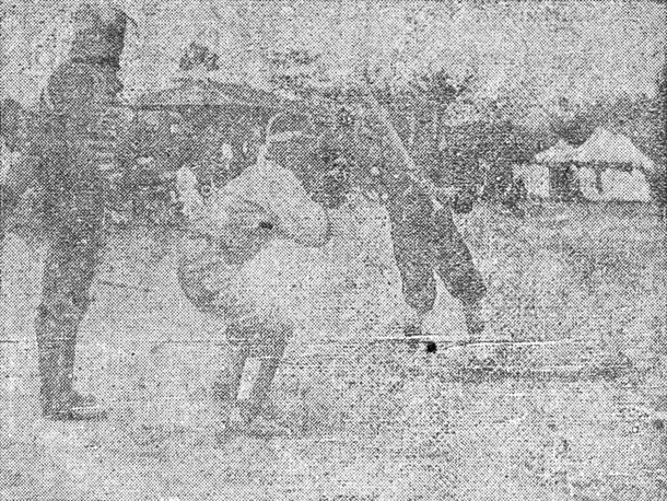 Baseball at the 1921 Korean National Sports Festival.